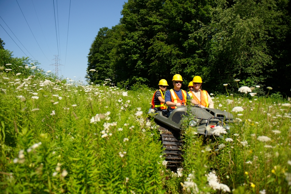 The ARGO 8x8 750 HDi